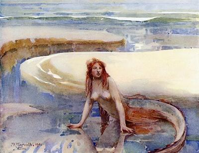 A mermaid lies in a pool of water, where a stream flows across the beach and down to the sea. Watercolour.